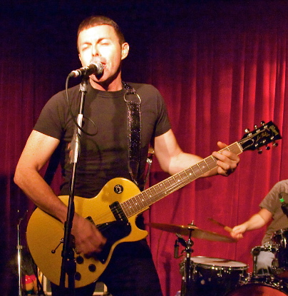 Richard Barone performing with The Bongos performing at Maxwell's in Hoboken, Oct. 21, 2009.